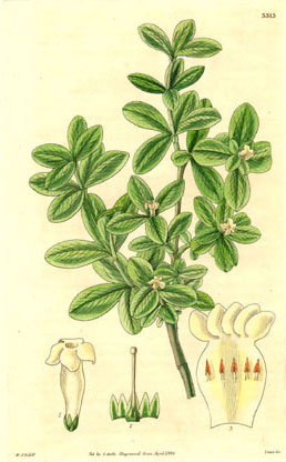 Alyxia daphnoides1.jpg Downloaded from : en: pages/16901.Apocynaceae - Alyxia daphnoides.htm Apocynaceae - Alyxia daphnoides. From: Curtis’s botanical magazine; or flower garden displayed. Conducted by Samual Curtis. The descriptions by William Jackson Hooker. London, Samual Curtis, 1834, volume 61 (plate 3313).